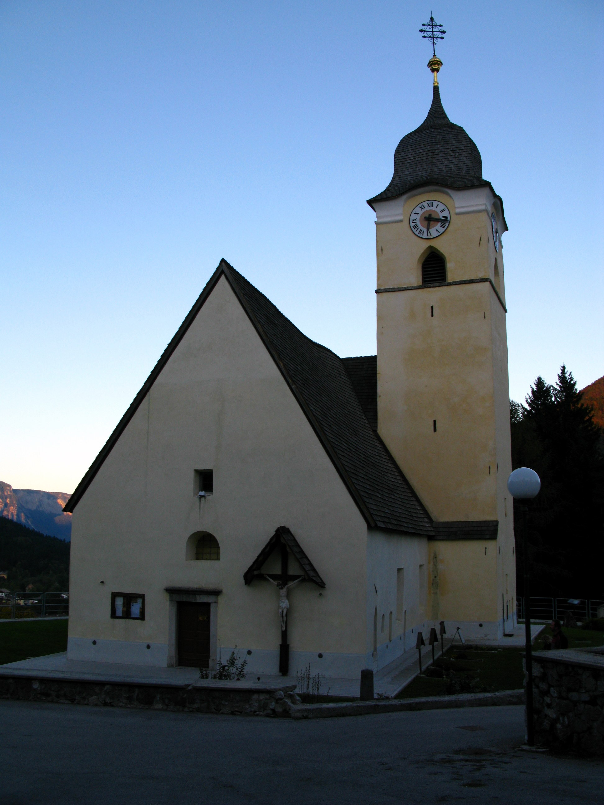 Church of Coccau in Coccau di Sopra, community Tarvisio in Friuli-Venezia Giulia / Italy / EU.